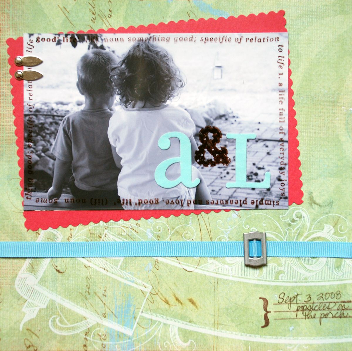 Made for Hampton Arts 2009 Catalog